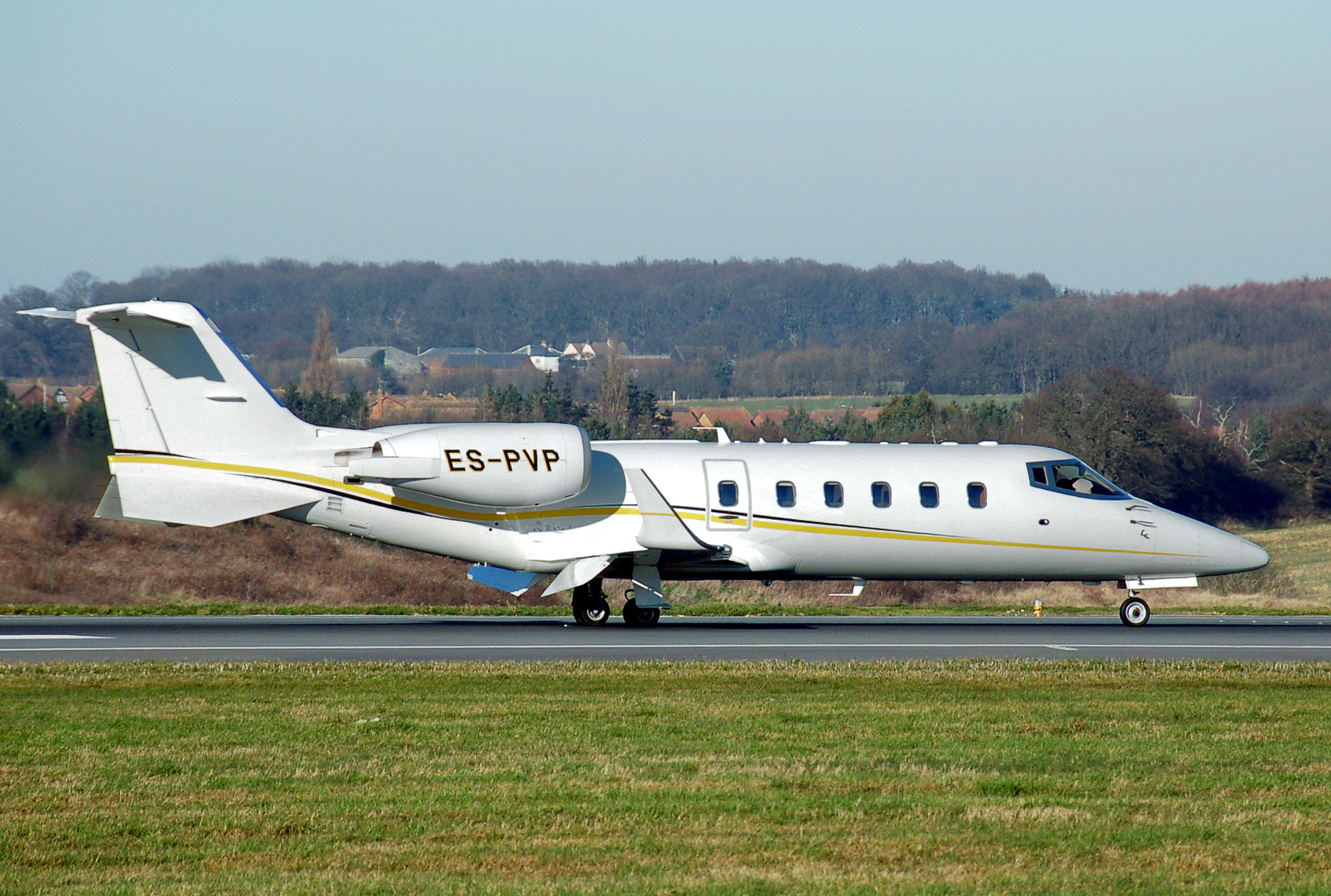 A Bombardier Learjet 60 (Estonian registration ES-PVP) shortly after landing at London Luton Airport, England.